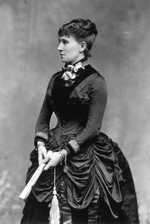 Portrait of Infanta Maria das Neves of Portugal (1852-1941)